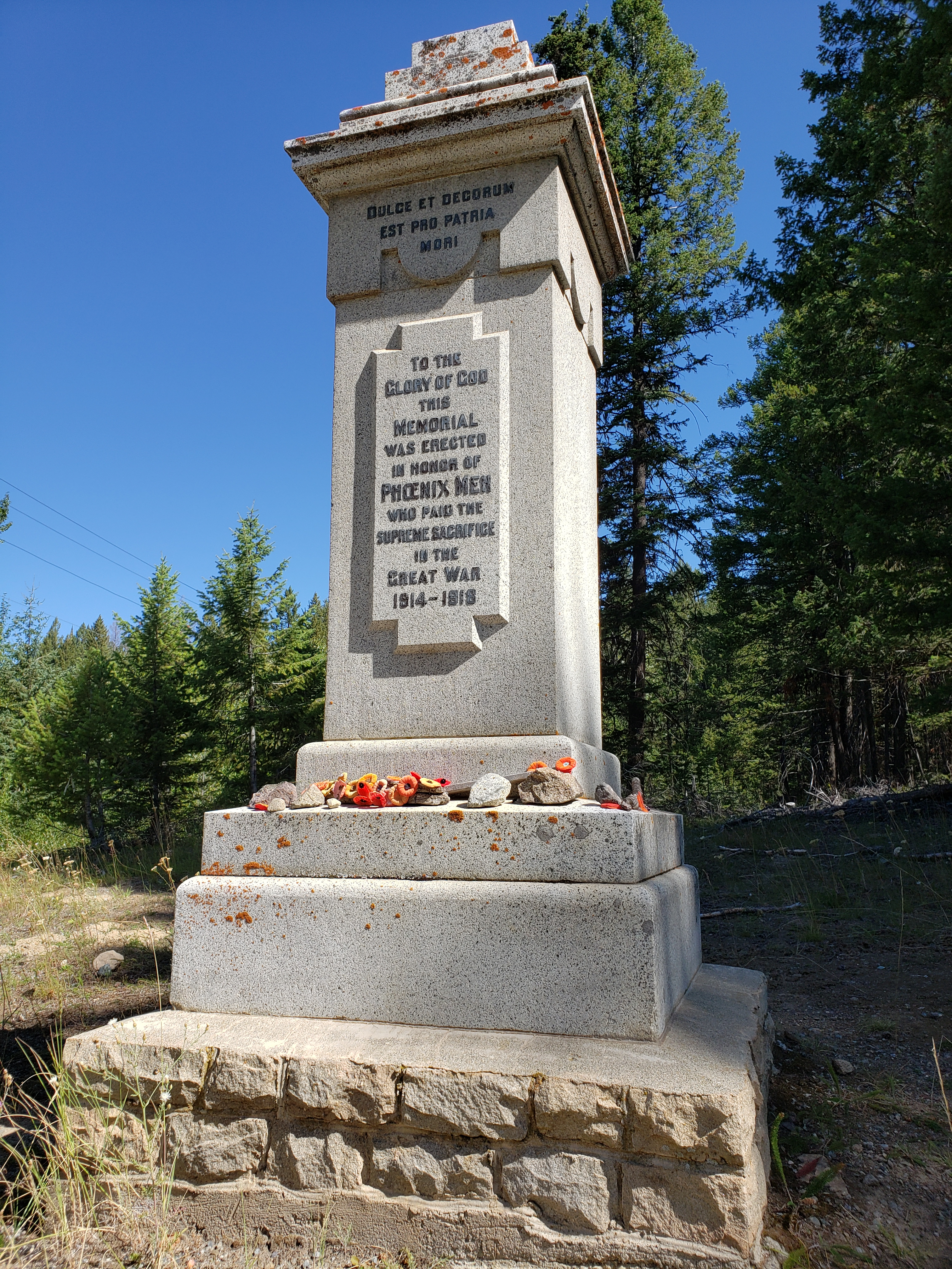 World War 1 cenotaph in the ghost town of Phoenix, British Columbia, Canada. The only structure left standing in the whole city. Photo taken Aug. 27, 2019.